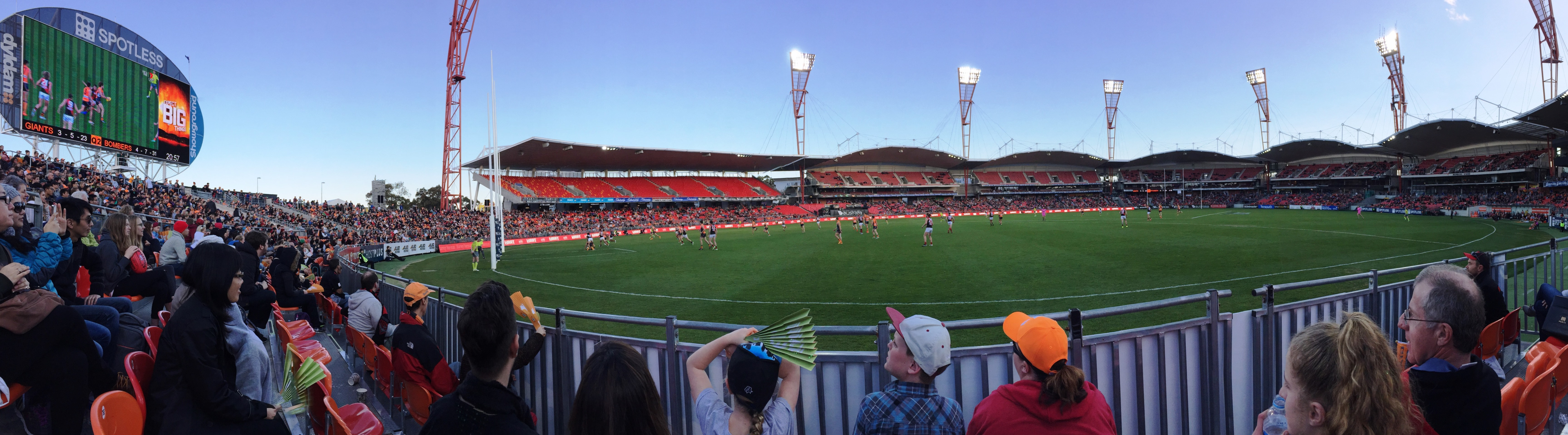 AFL game between the GWS Giants and Essendon Bombers at Sydney Showground Stadium.